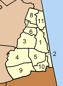 Map of Hua Sai district, Nakhon Si Thammarat province, Thailand, with the communes (tambon) numbered. Hua Sai (หัวไทร) Na Saton (หน้าสตน) Saikhao (ทรายขาว) Laem (แหลม) Khao Phang Krai (เขาพังไกร) Ban Ram (บ้านราม) Bang Nop (บางนบ) Tha Som (ท่าซอม) Khuan Cha Lik (ควนชะลิก) Ram Kaeo (รามแก้ว) Ko Phet (เกาะเพชร)